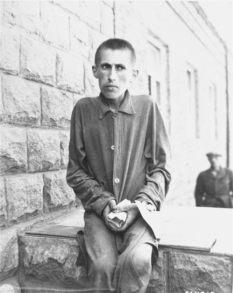 A survivor of Gusen shortly after liberation